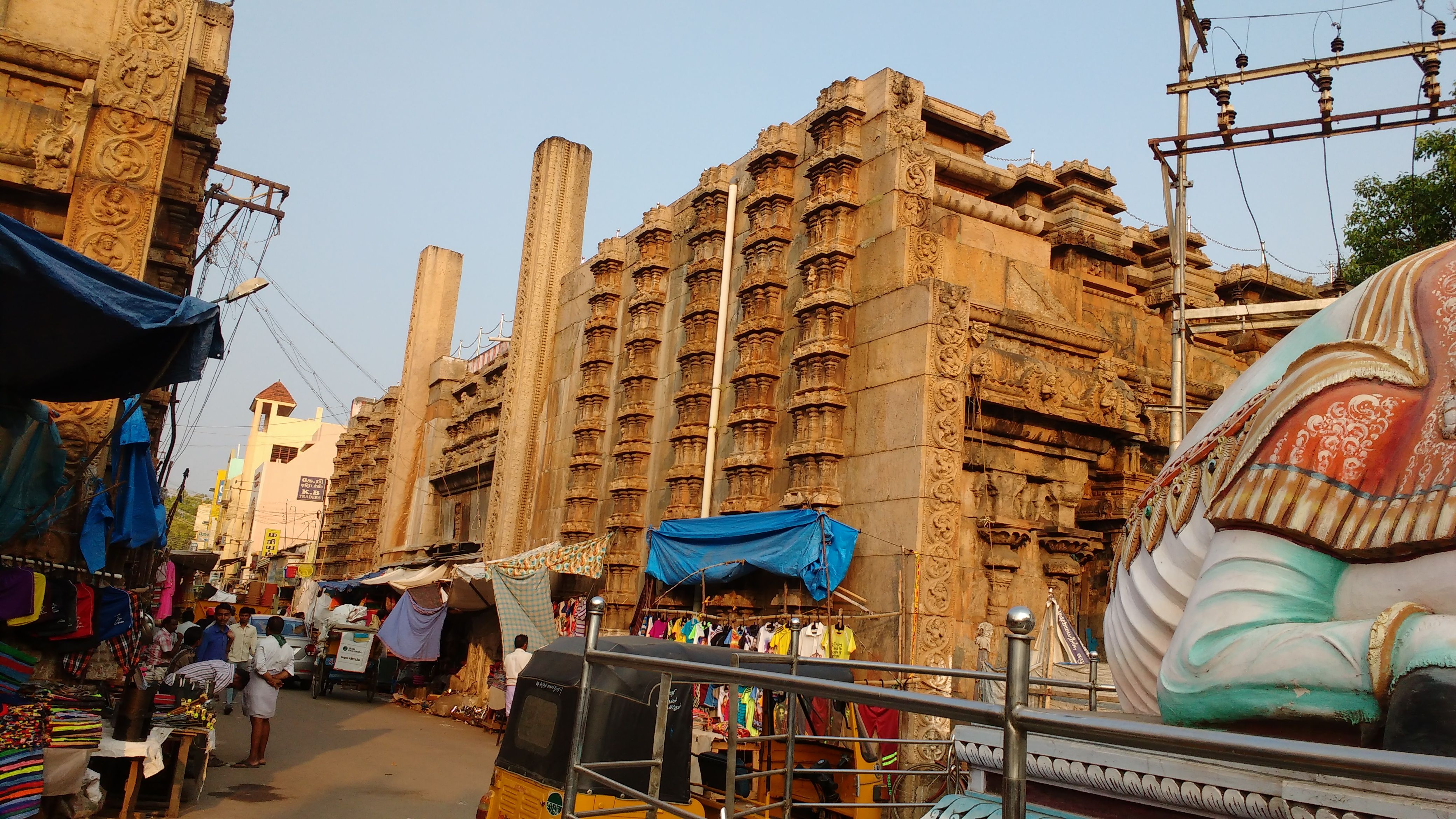 Incomplete Raj Tower, Opposite of Pudumandapam